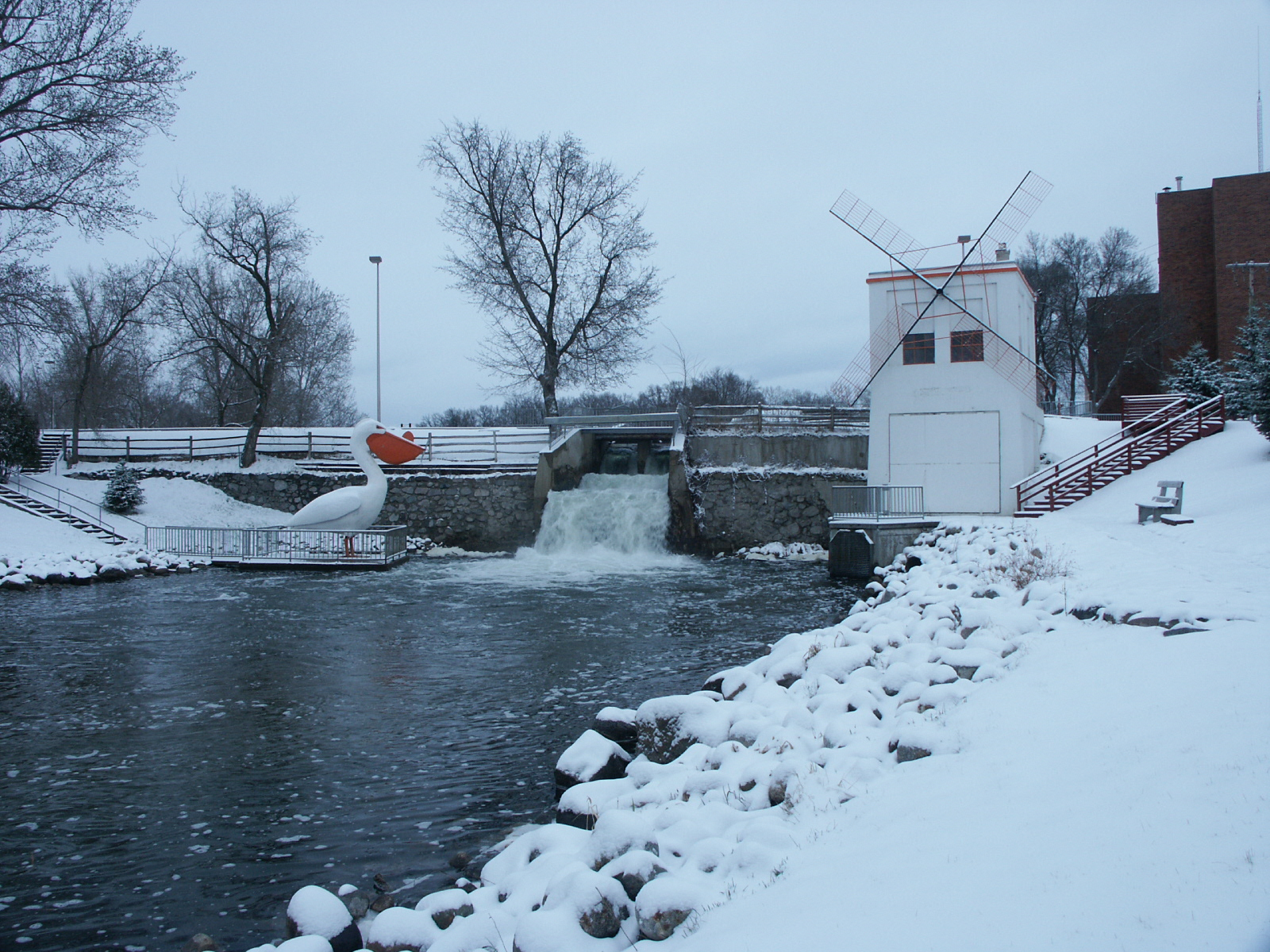 "Worlds Largest Pelican" located on the Pelican River downtown Pelican Rapids, Minnesota. Photo by Scott Backstrom 2004